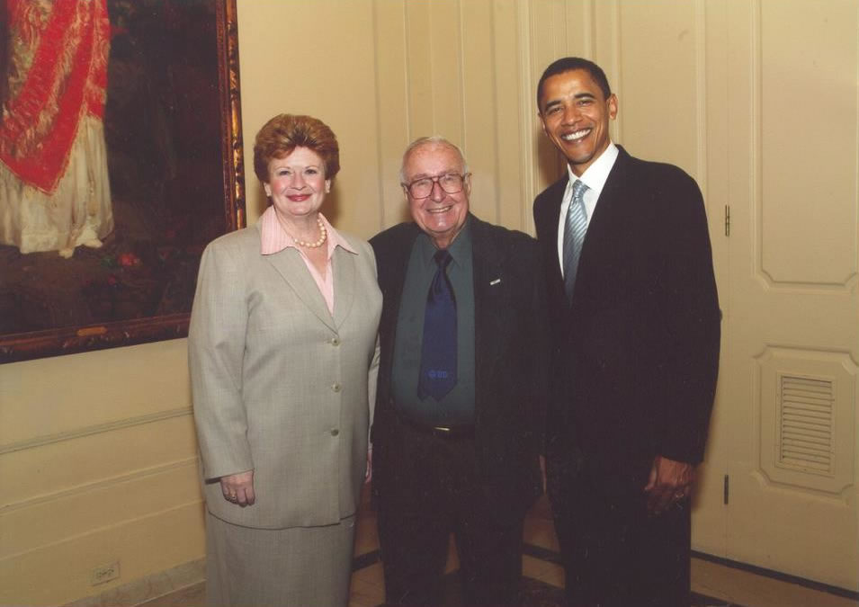 Left to right: Senator Debbie Stabenow, Dr. Henry D. Messer, President Barack Obama.